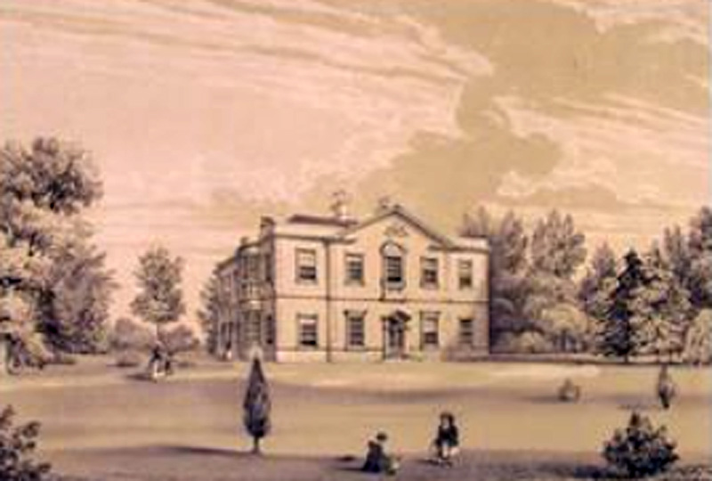 Hoole Hall, Chester in 1846